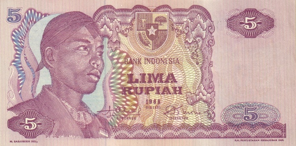 Indonesian currency issued 1976-2000.